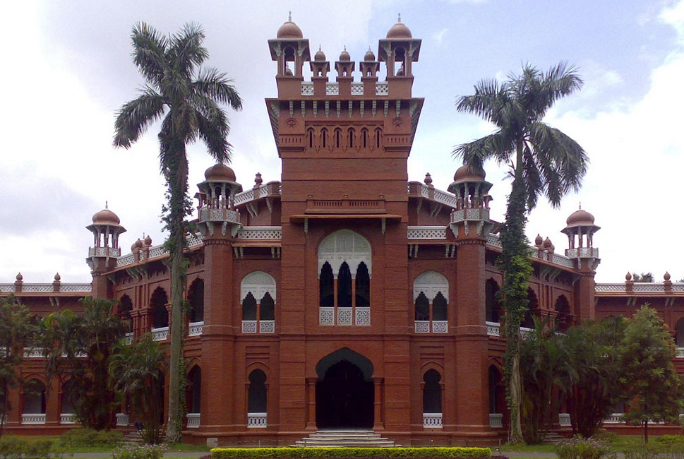 Curzon Hall front view. There are some electric wirings that are replaced in the picture using photo shop to enhance beauty